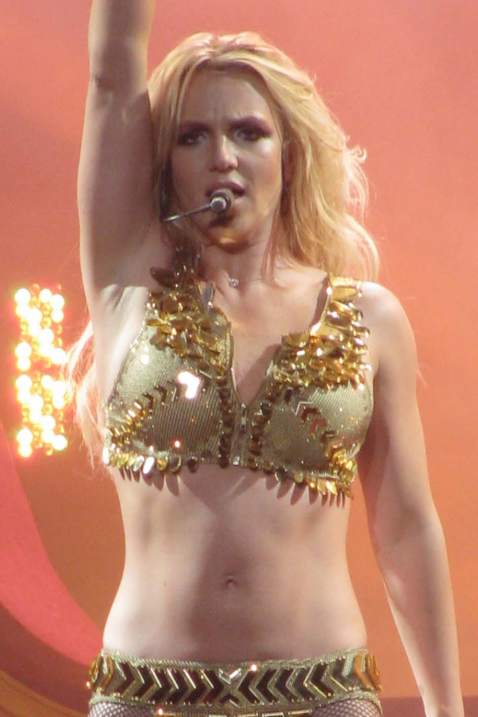 Britney Spears performing "Gimme More" at the Femme Fatale Tour on July 26, 2011.